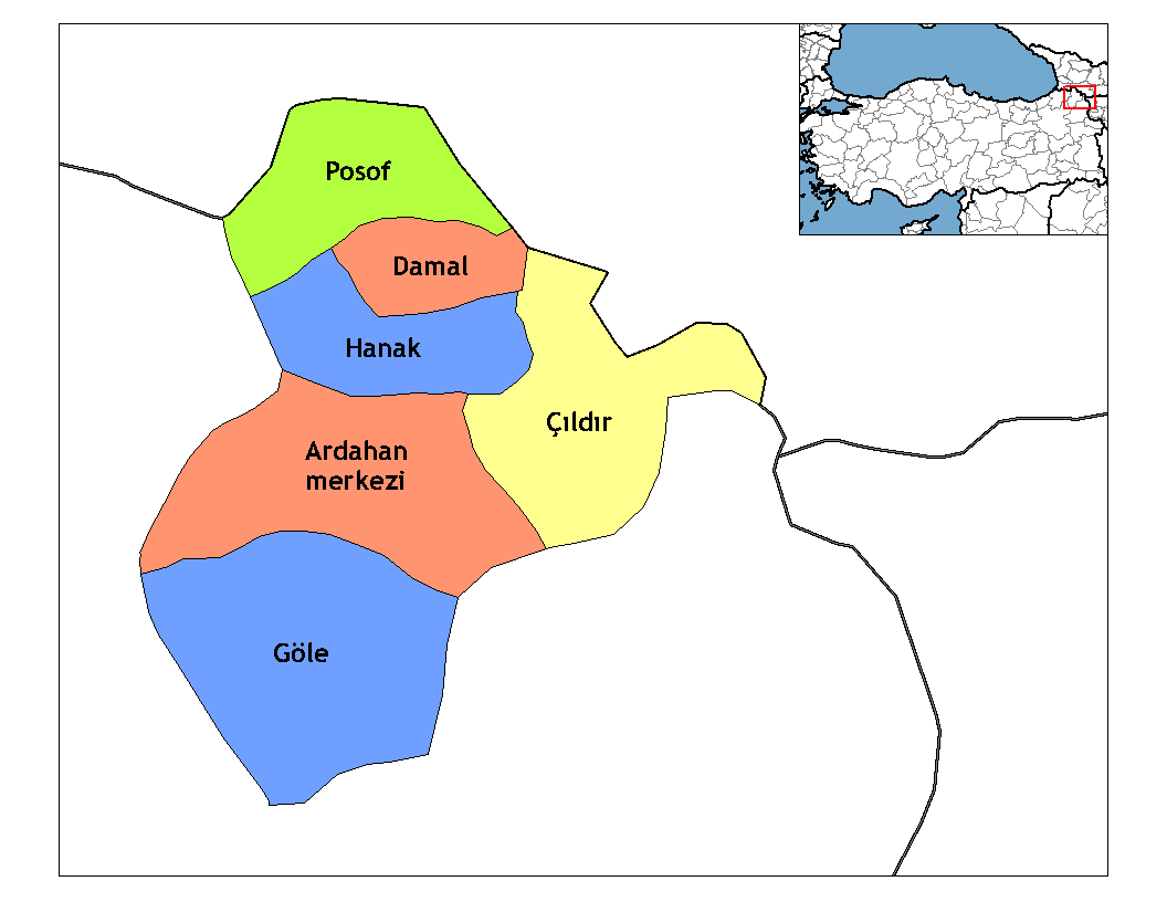 Map of the districts of Ardahan province in Turkey. Created by Rarelibra 17:13, 1 December 2006 (UTC) for public domain use, using MapInfo Professional v8.5 and various mapping resources. Edited by One Homo Sapiens Corrected text where İ,Ş,ı,ğ,or ş occurs in name. Source: [statoids-com]. Increased font size and enhanced color differences among adjacent districts.